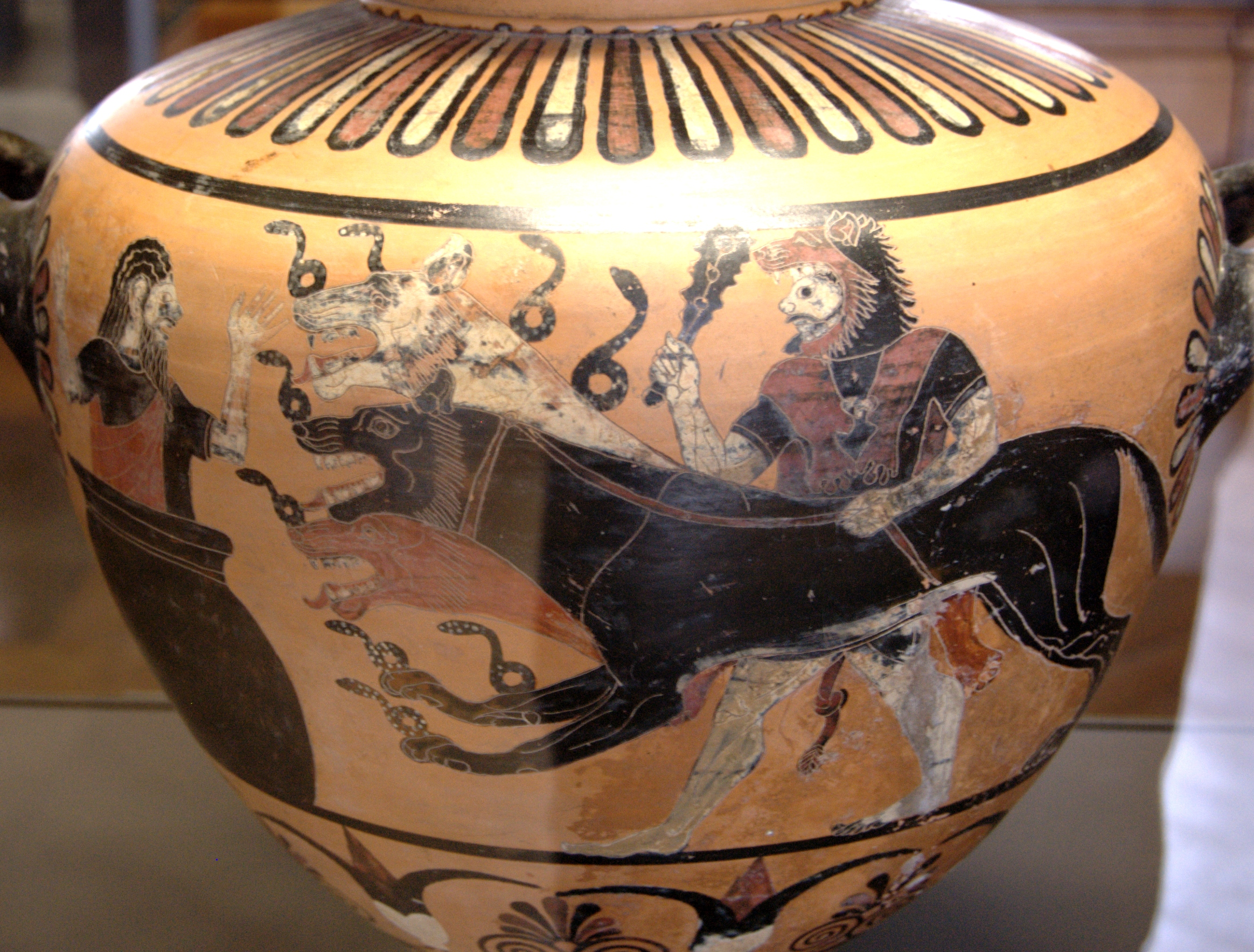 Side A: Herakles, Cerberus and Eurystheus. Side B: two eagles flying and a hare.